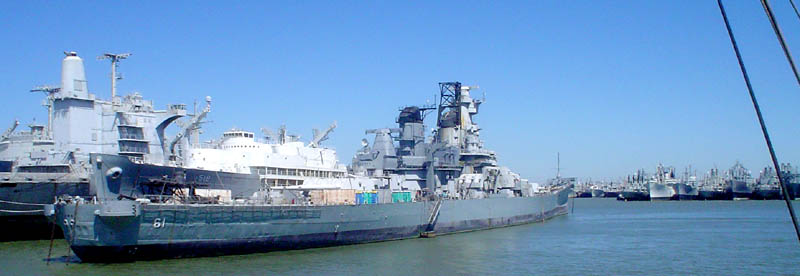 The "Ghost Fleet" and the USS Iowa (BB-61) at Suisun Bay.